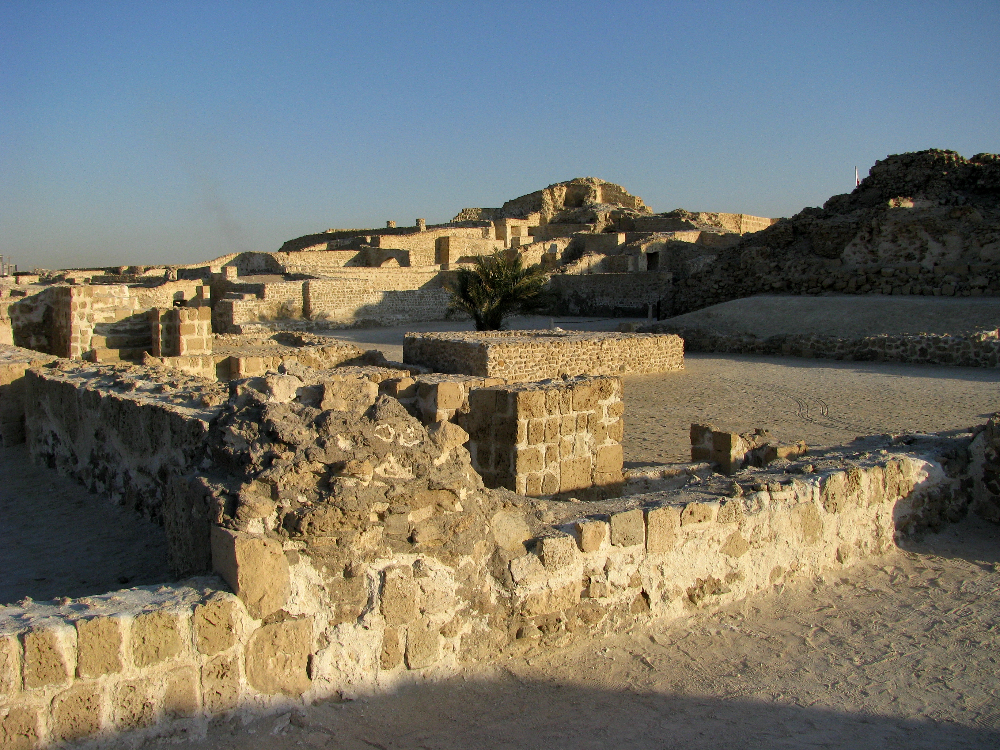 The Manama city skyline is just to the left of this view.